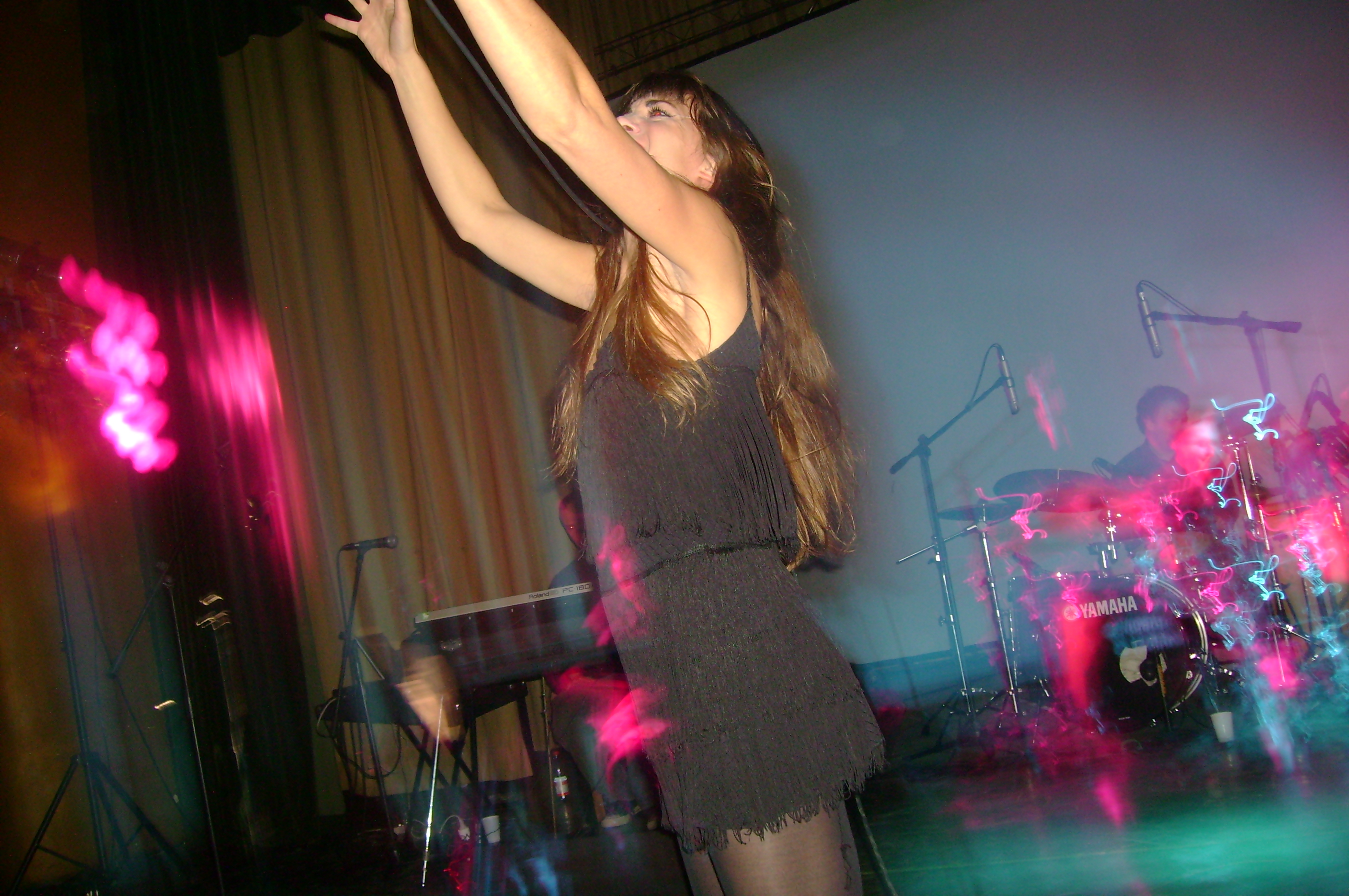 Phoebe Killdeer at Nouvelle Vague concert